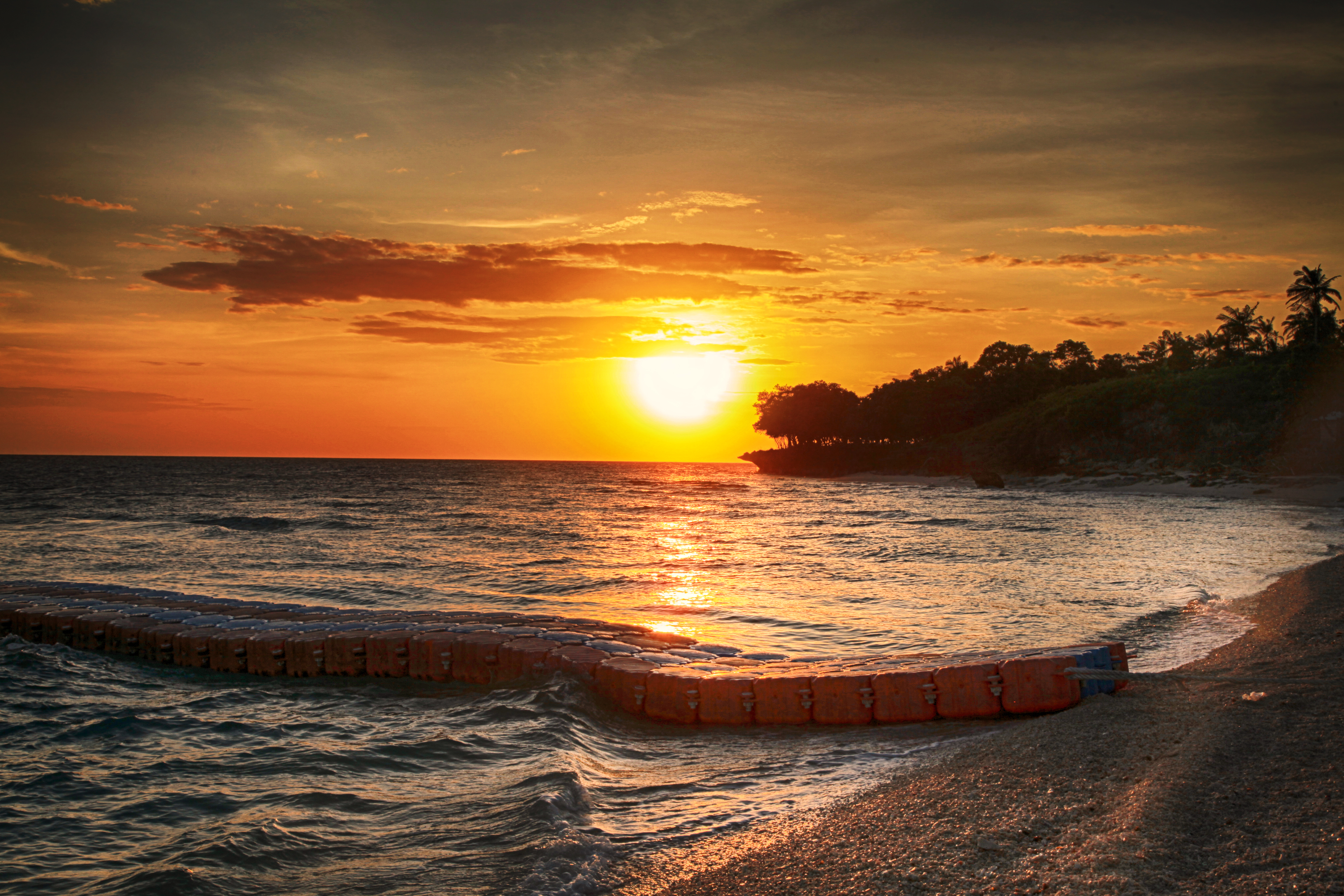 This photo has been taken in the country: Philippines